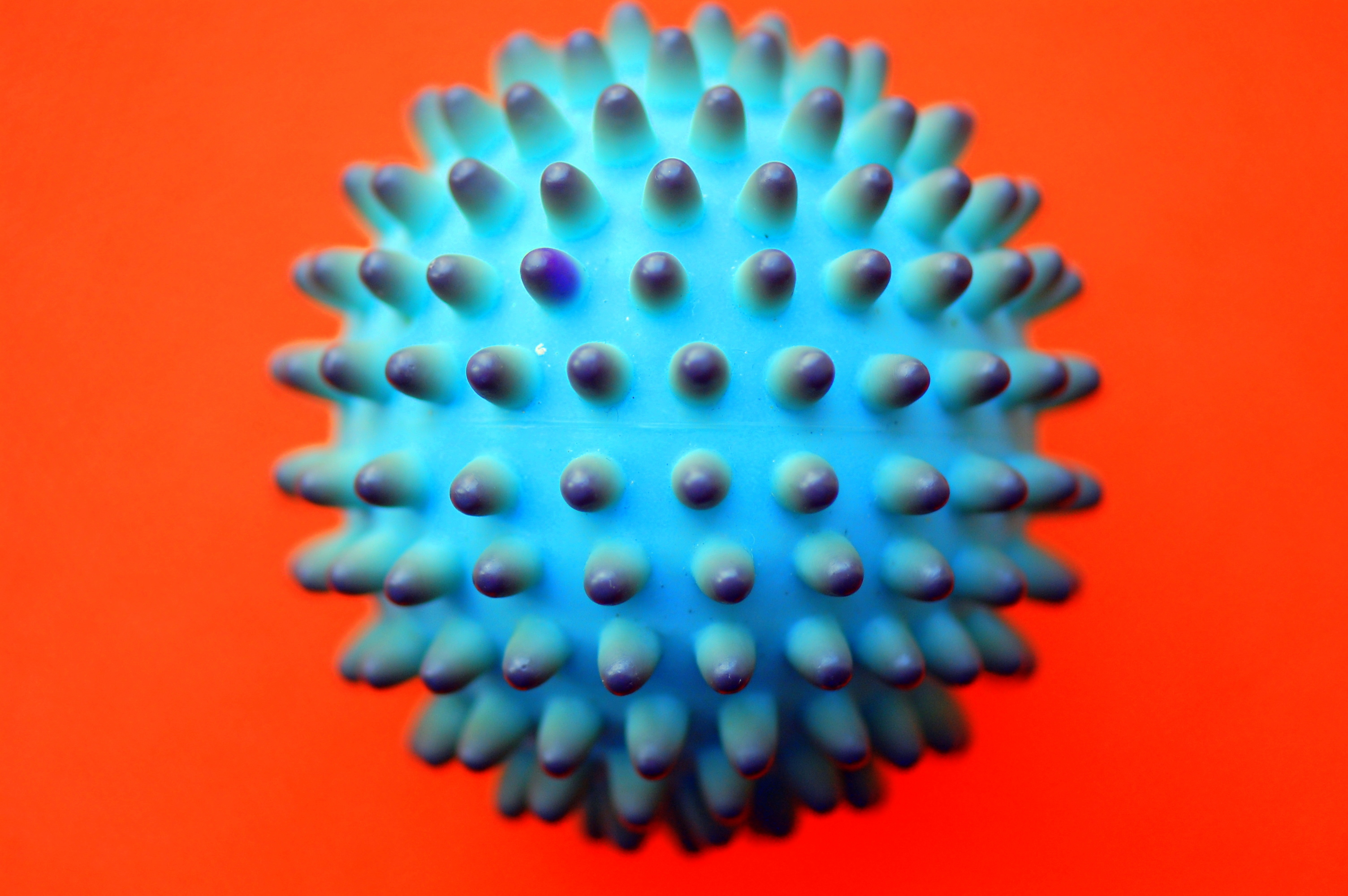 Dryer Ball or Laundry ball